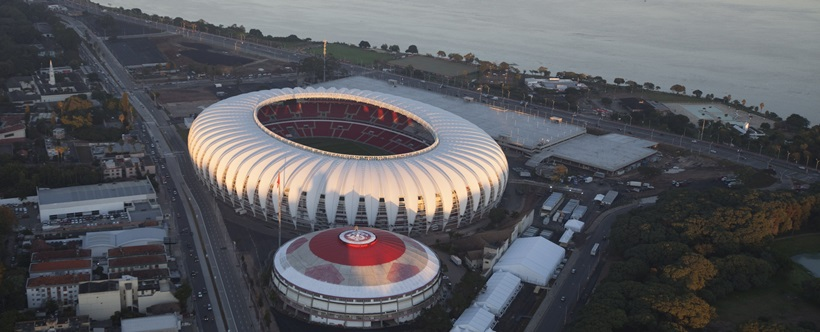 Vista aérea do Estádio Beira-Rio, Porto Alegre - RS